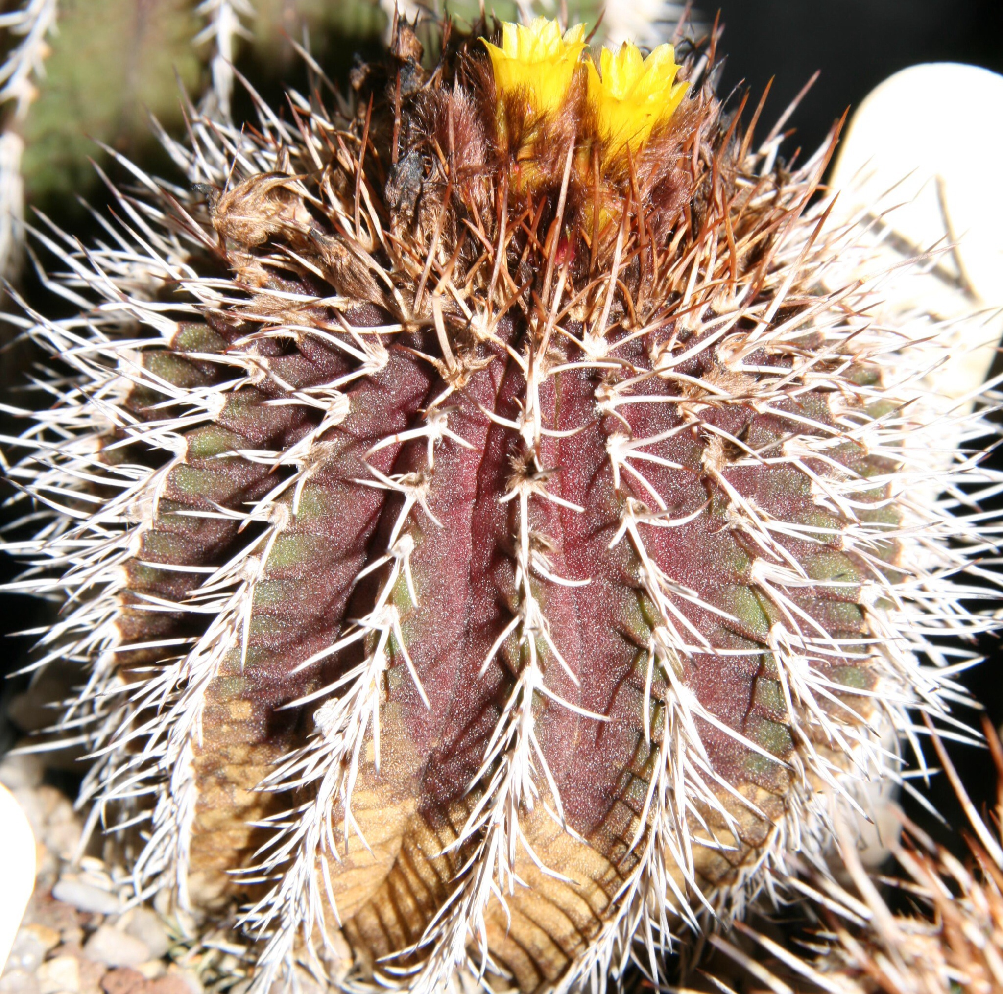 Plant from type habitat, Minas Gerais, Brasil